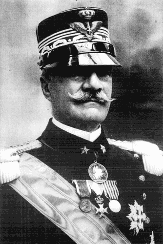 Carlo Caneva (22 April 1845, Udine – 25 September 1922, Rome) was an Italian general, most notable as chief of staff during the Libyan campaign of the Italo-Turkish War.